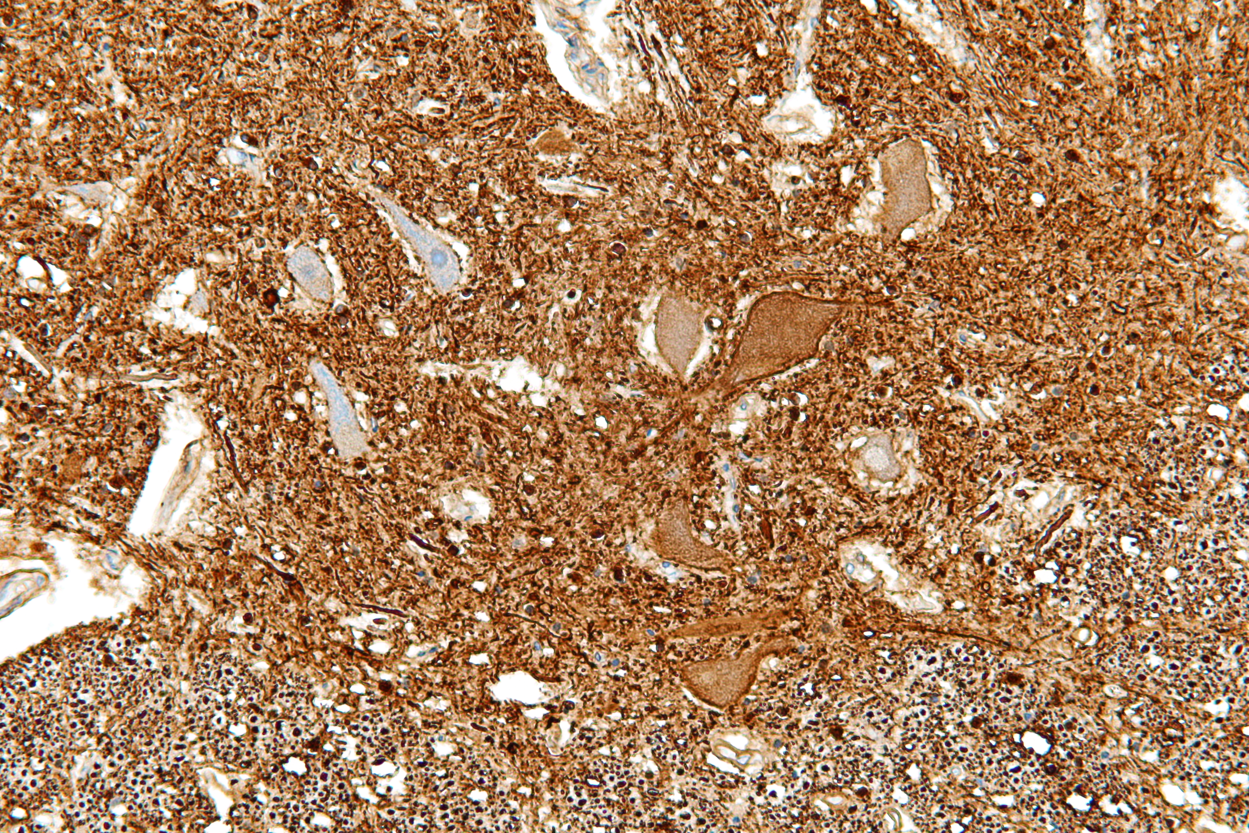 High magnification micrograph of the anterior horn of the spinal cord showing motor neurons with central chromatolysis. Neurofilament immunostain. Related images Intermed. mag. High mag. (NF) Very high mag. (NF)